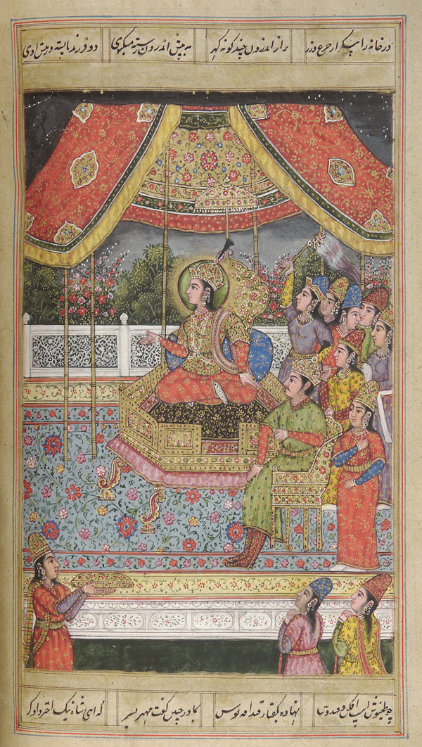 Shahnama of Firdausi, Mughal, India